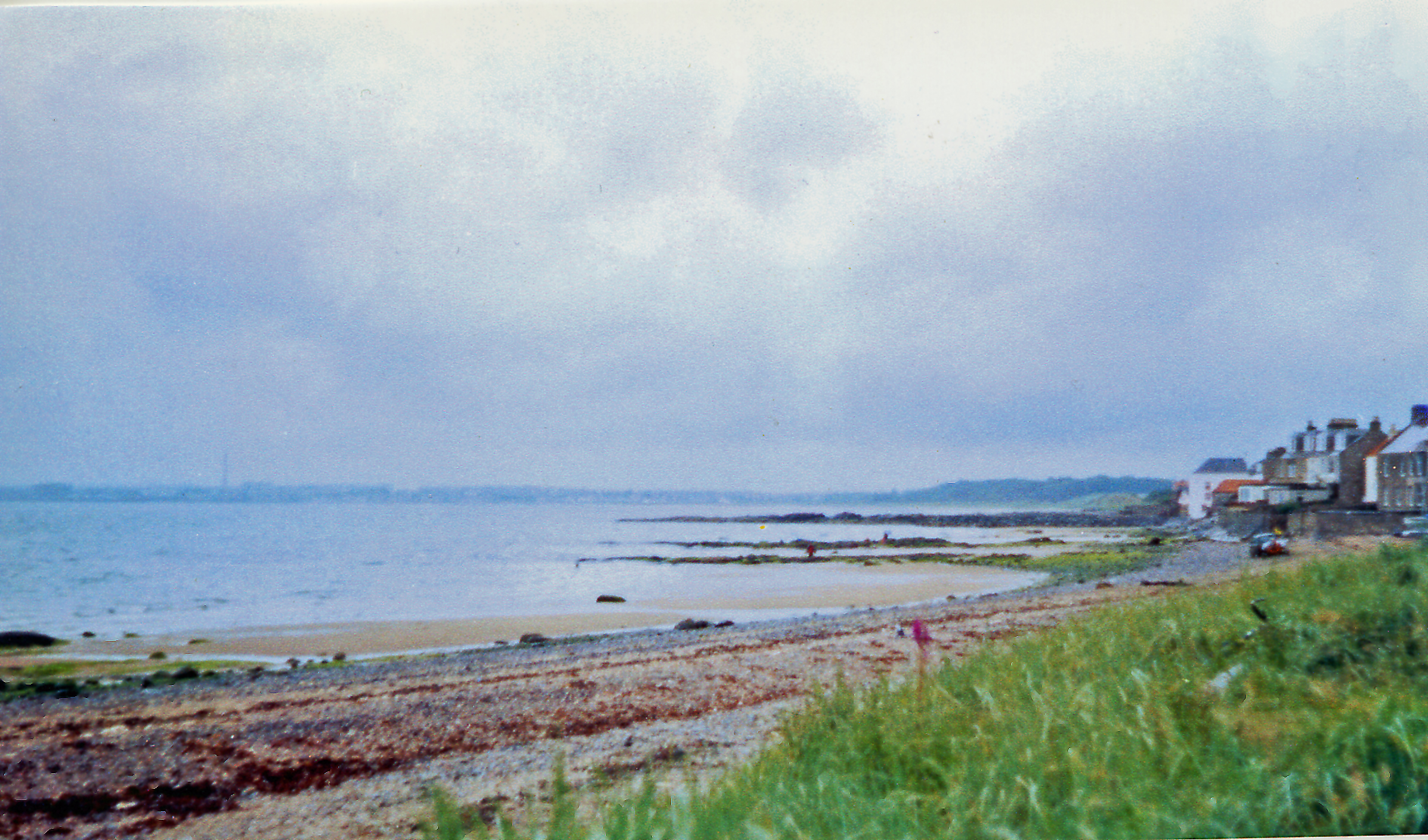 Site of Lundin Links station, 2002. View SW over Largo Bay, the station having been here until 6/9/65 when the ex-NBR line from Thornton Junction to Crail and St Andrews was closed east of Leven, although goods was conveyed along here until 18/7/66.